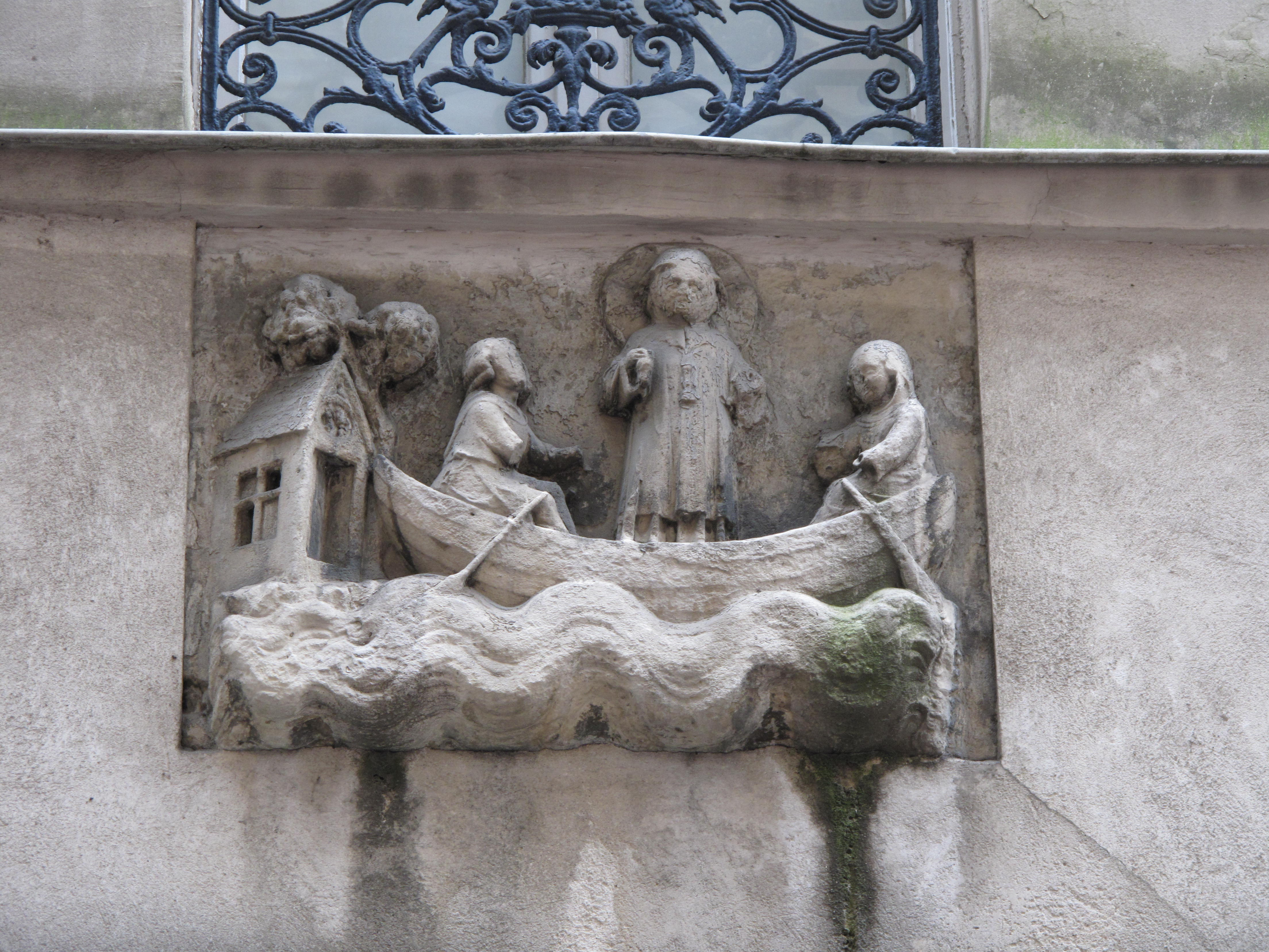 Relief of 14th century of Julian the Hospitaller, 42 rue Galande, Paris 5th arrond.